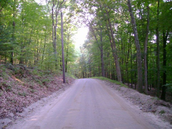 Velvet Street (a.k.a. "Dracula Drive") is the dirt road where the Trumbull Melonheads supposedly lurk.